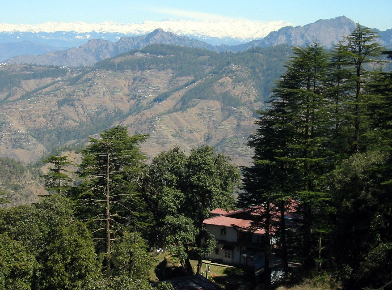 A view from Shimla's upper ridge looking north to the snow-capped Himalaya, visible in the background. The evergreen foliage at the right is Cedrus deodara.